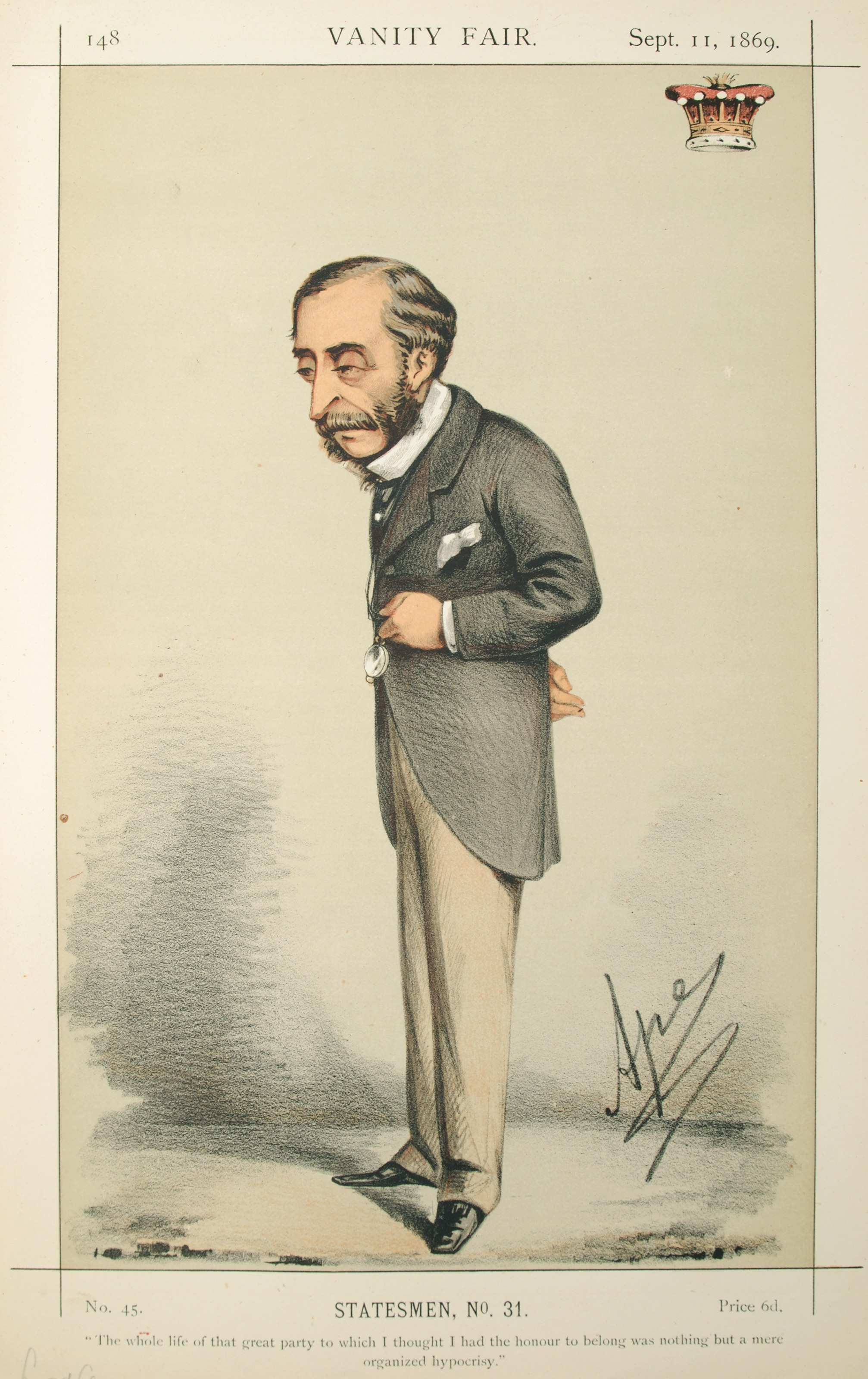 Statesmen No.31: Caricature of Lord Carnarvon. Caption reads: "The whole life of that great party to which I thought I had the honour to belong was nothing but a mere organised hypocrisy."